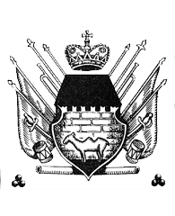 Emblem of Isetskaia Province of Russia